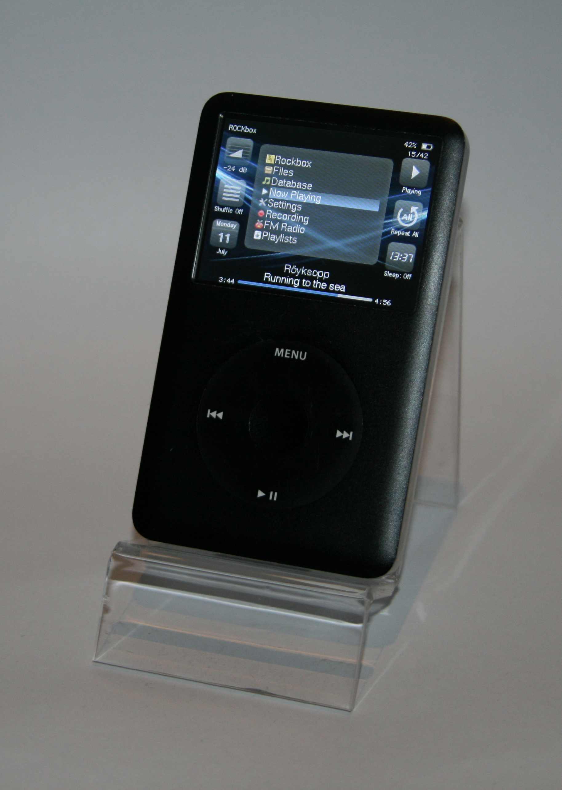 iPod classic 6G with a custom Rockbox firmware